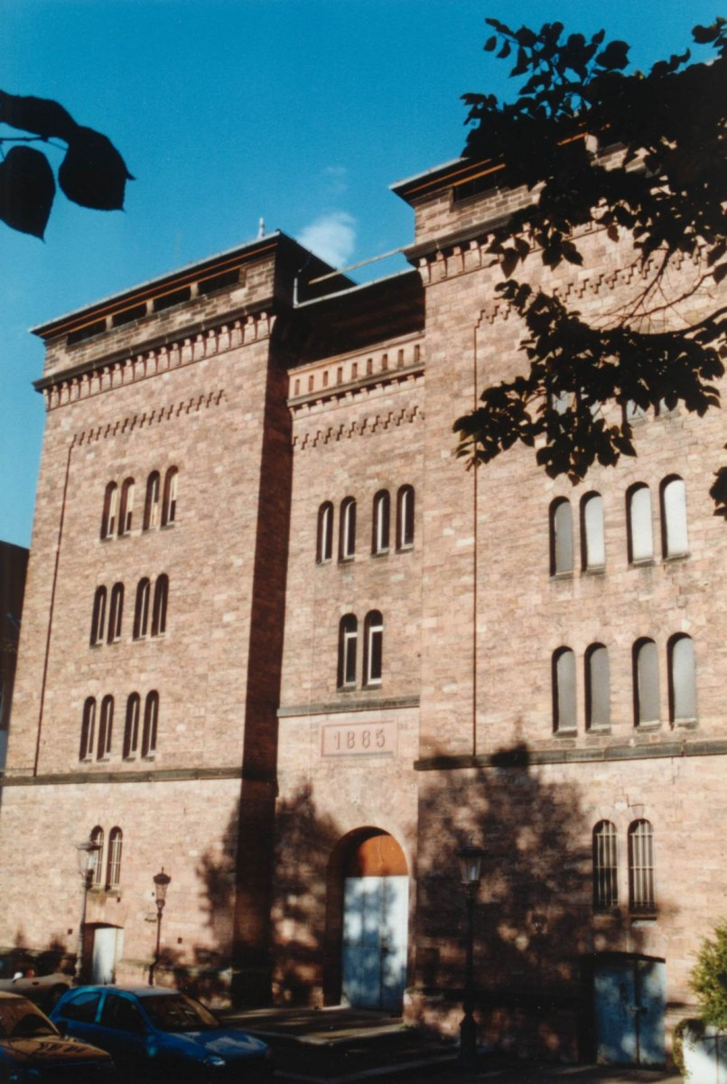 Elder magazine of provisions of the fortress Mainz, now including a Restaurant